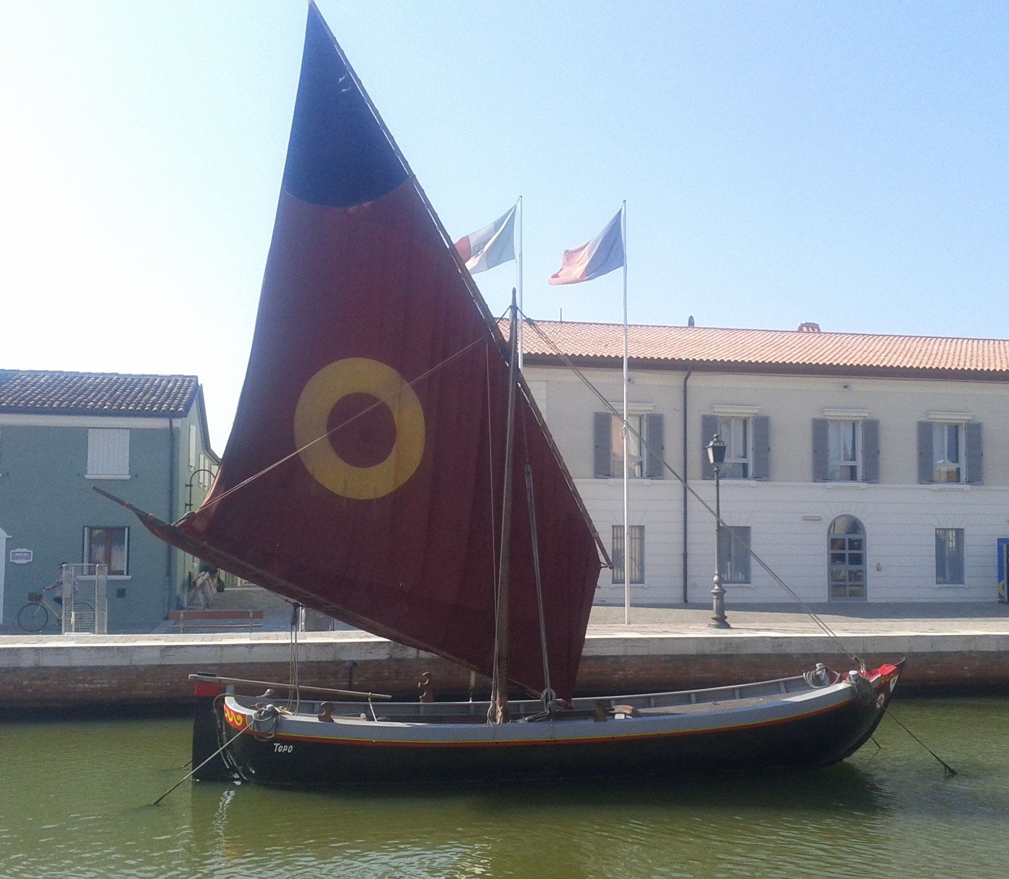 Topo (historical ship) at the museum of Cesenatico (Italy)